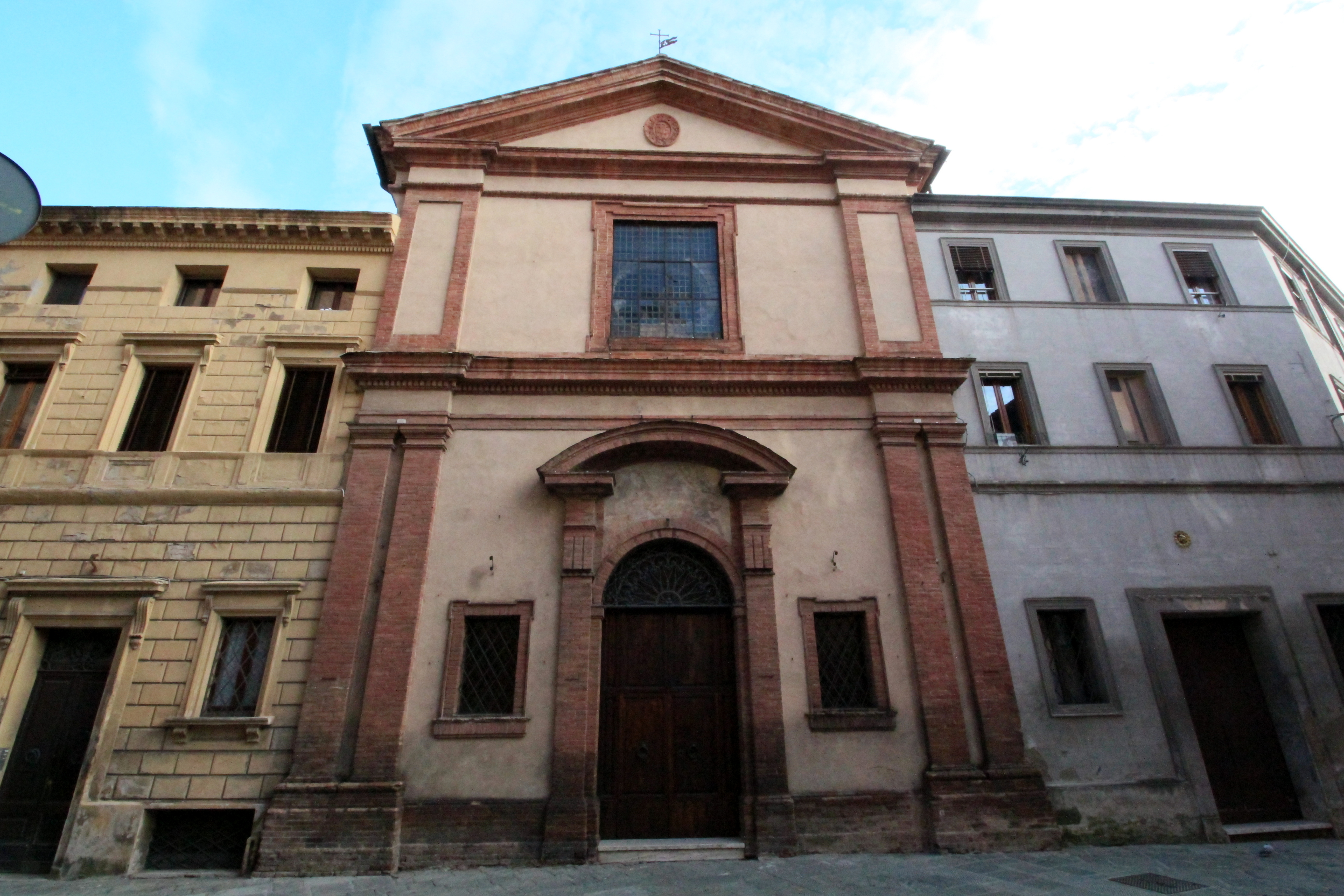 Church Santi Niccolò e Lucia, more known as Santa Lucia, historical center of Siena, Terzo di Città, Via Pian dei Mantellini, Siena, Province of Siena, Tuscany, Italy